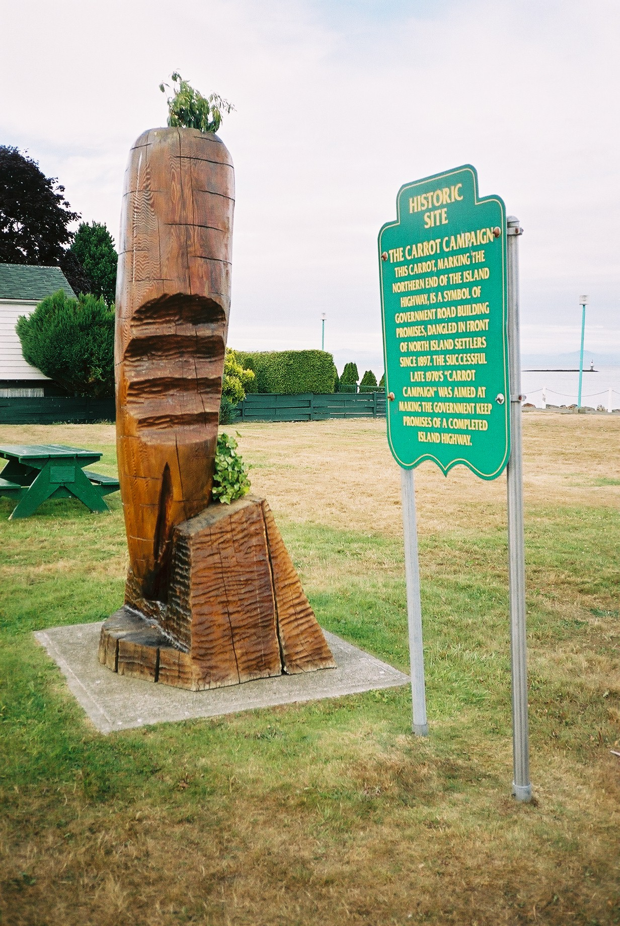 Carrot Campaign monument, Port Hardy, British Columbia. Sign reads: HISTORIC SITE THE CARROT CAMPAIGN THIS CARROT, MARKING THE NORTHERN END OF THE ISLAND HIGHWAY, IS A SYMBOL OF GOVERNMENT ROAD BUILDING PROMISES, DANGLED IN FRONT OF NORTH ISLAND SETTLERS SINCE 1897. THE SUCCESSFUL LATE 1970’S “CARROT CAMPAIGN” WAS AIMED AT MAKING THE GOVERNMENT KEEP PROMISES OF A COMPLETED ISLAND HIGHWAY.